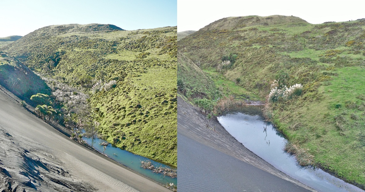 compare advance of sand and water level June 2007 to May 2012